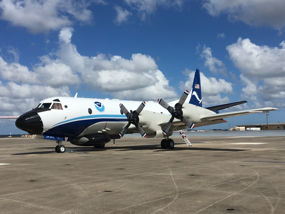 Hurricane Hunter Aircraft N42RF